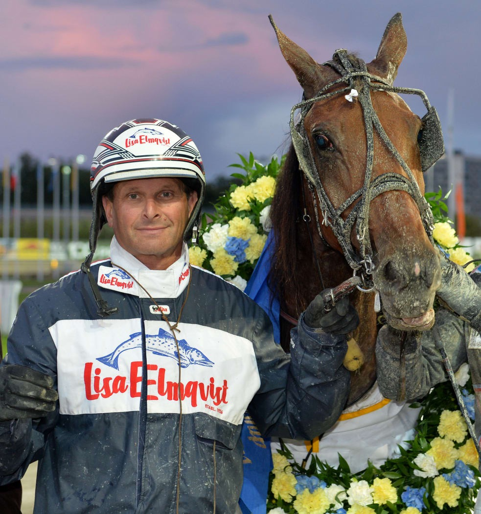 Reijo Liljendahl and trotting horse Canaka B.F.